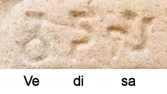 Detail of this inscription.Vedisa inscription Sanchi